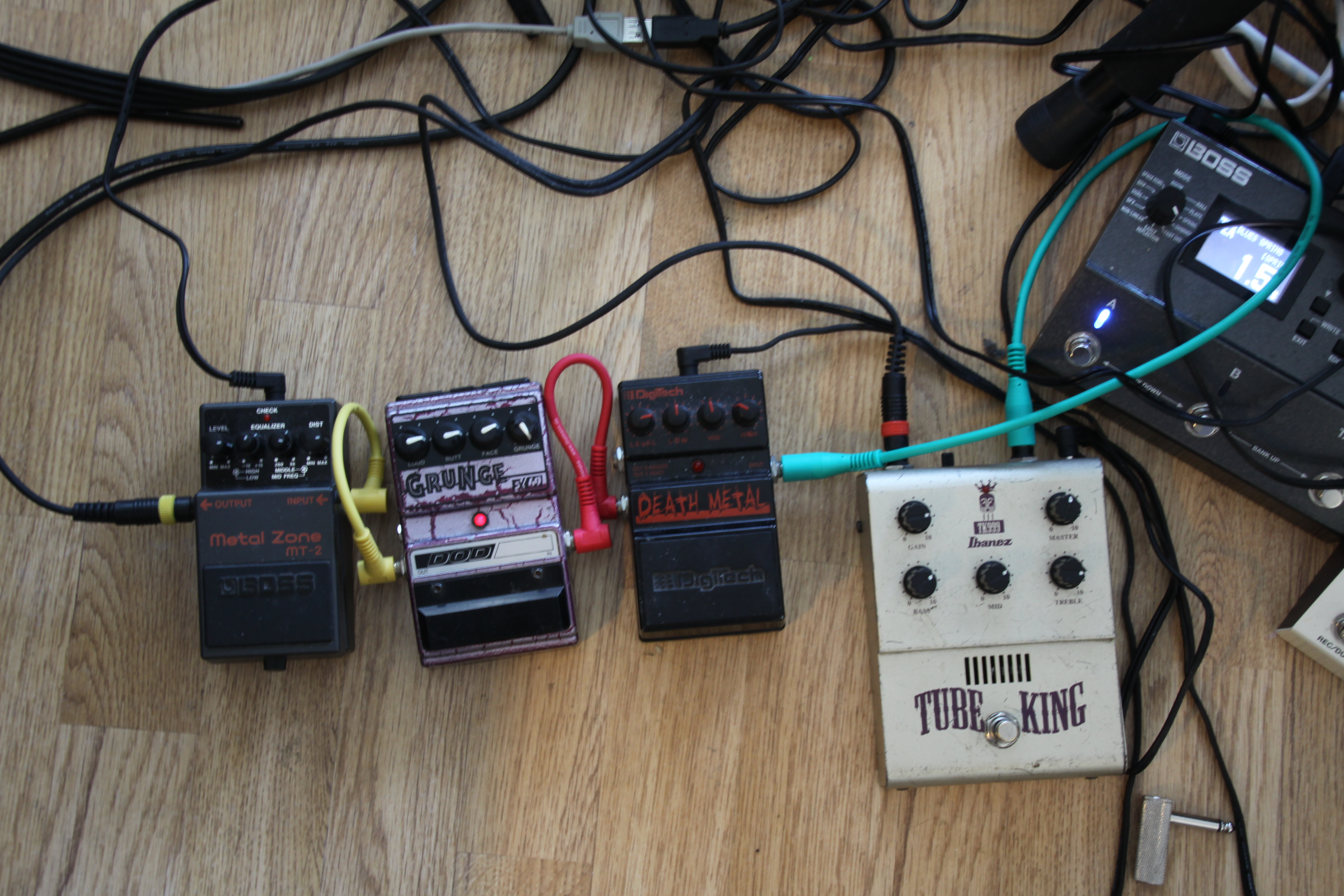 Distortion and overdrive pedals.